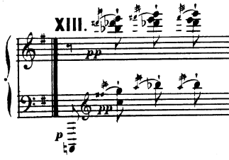 Thirteenth variation of Le festin d'Ésope, composed by by Charles-Valentin Alkan